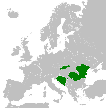 Croat-Romanian-Slovak friendship proclamation